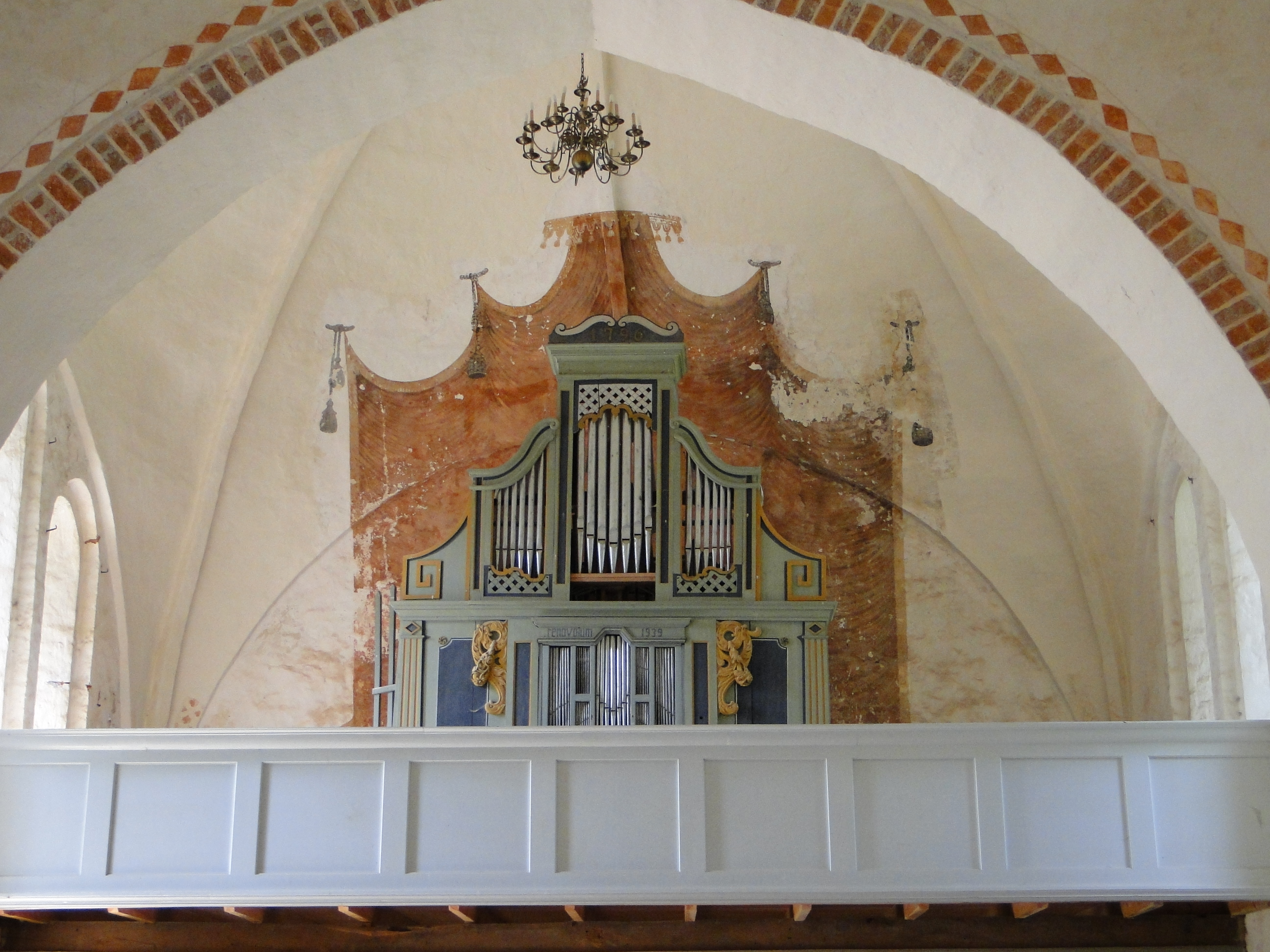 Pipe organ at church in Ruchow in the district Parchim, Mecklenburg-Vorpommern, Germany